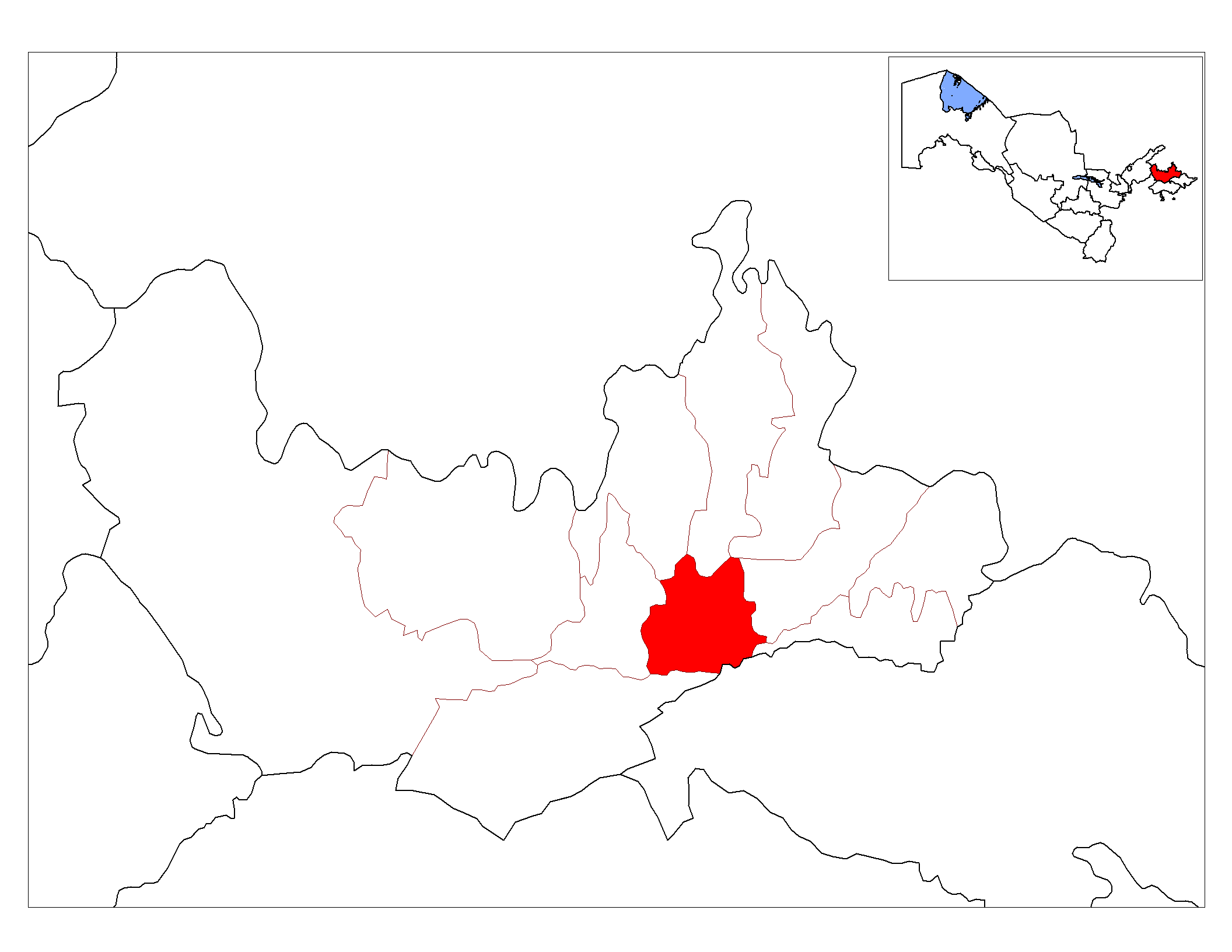 Location map of Namangan District in Namangan Province